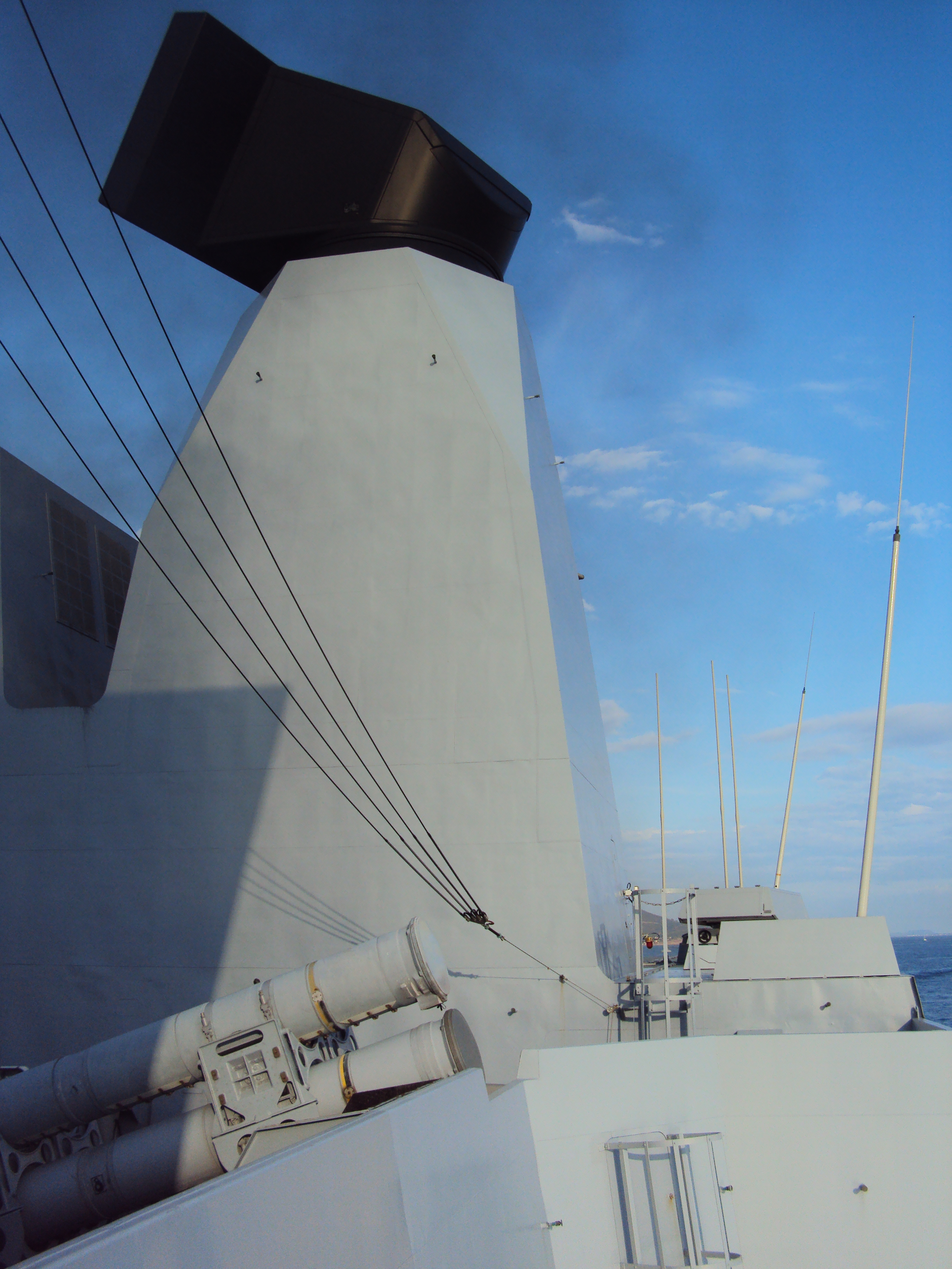 Tridimensional radar S1850 of Horizon class on Forbin Frigate